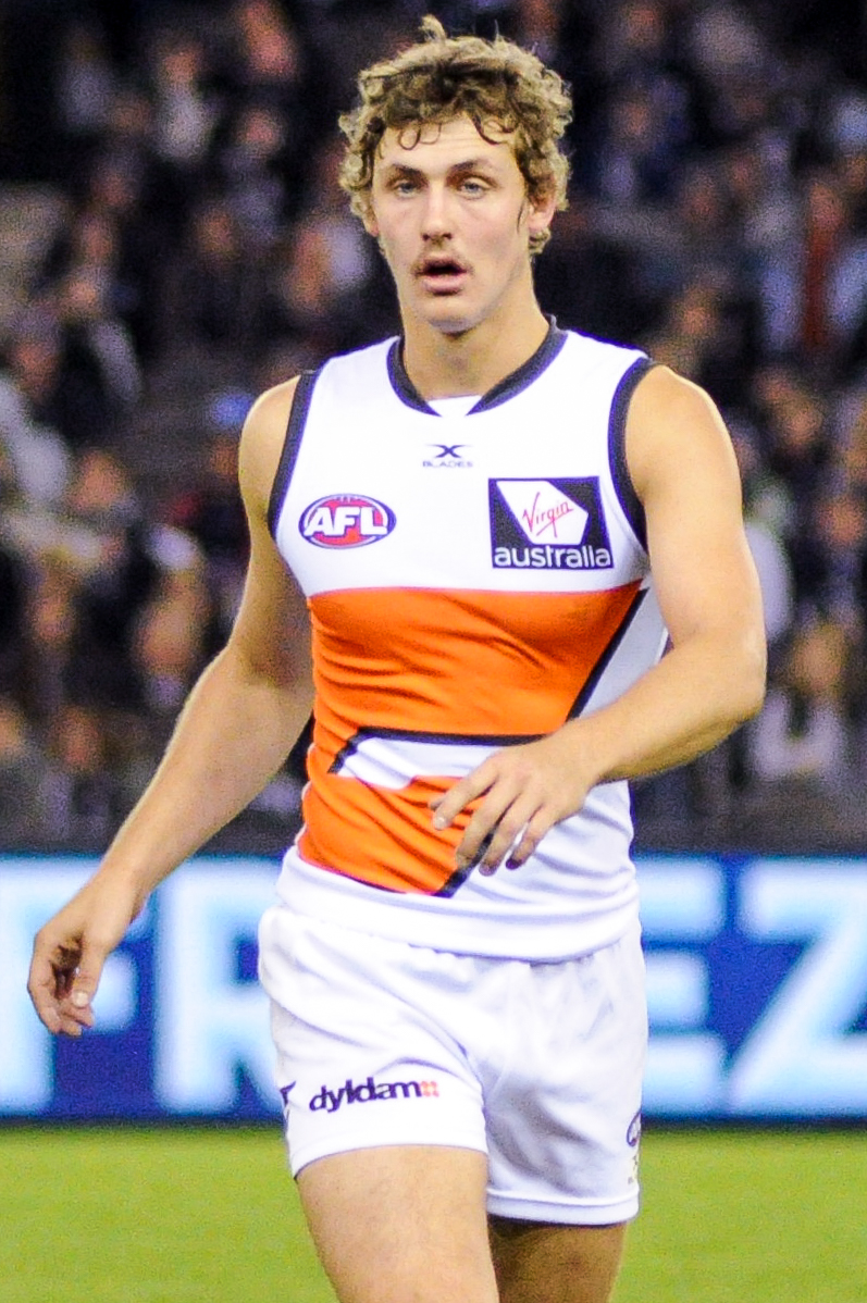 during the AFL round twelve match between Carlton and Greater Western Sydney on 11 June 2017 at Etihad Stadium in Melbourne, Victoria.